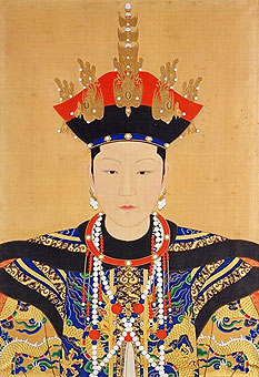 The Official Imperial Portrait of Qing Dynasty's Empress